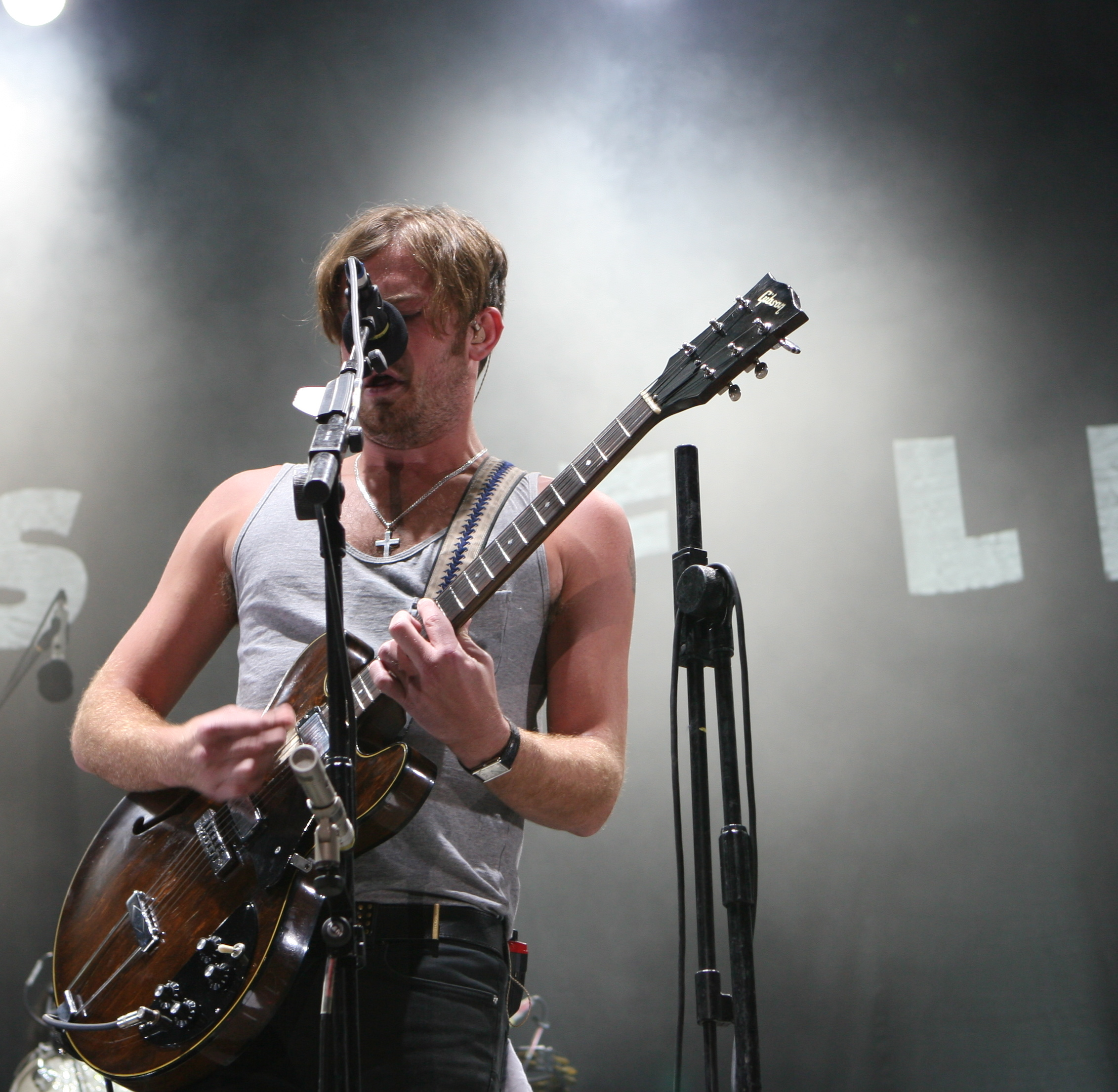 Caleb Followill - Kings of Leon